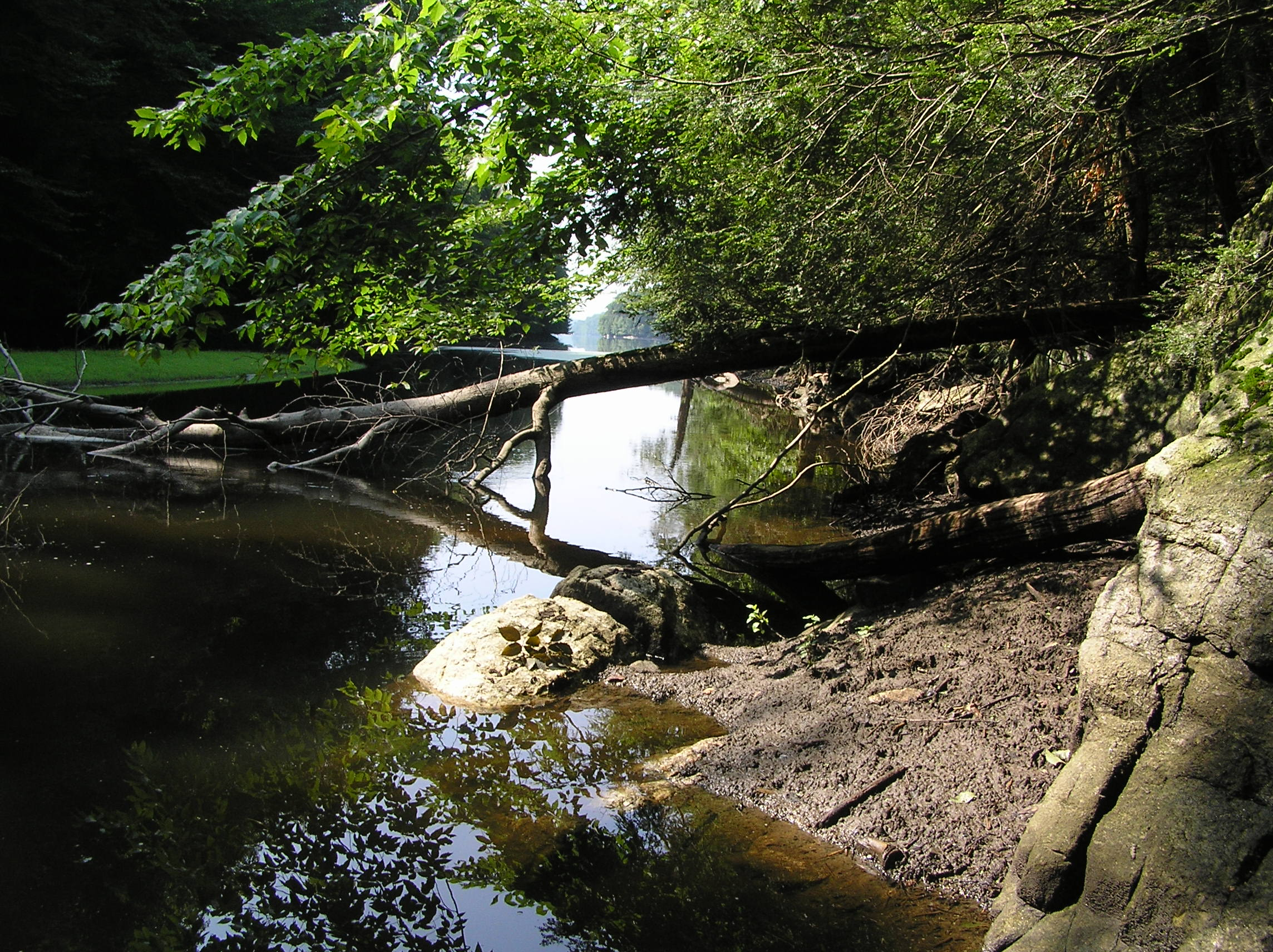 A photograph of the Mianus River as it approaches the Samuel J. Bargh Reservoir. The gorge is located in the town of Bedford at the New York/Connecticut border.